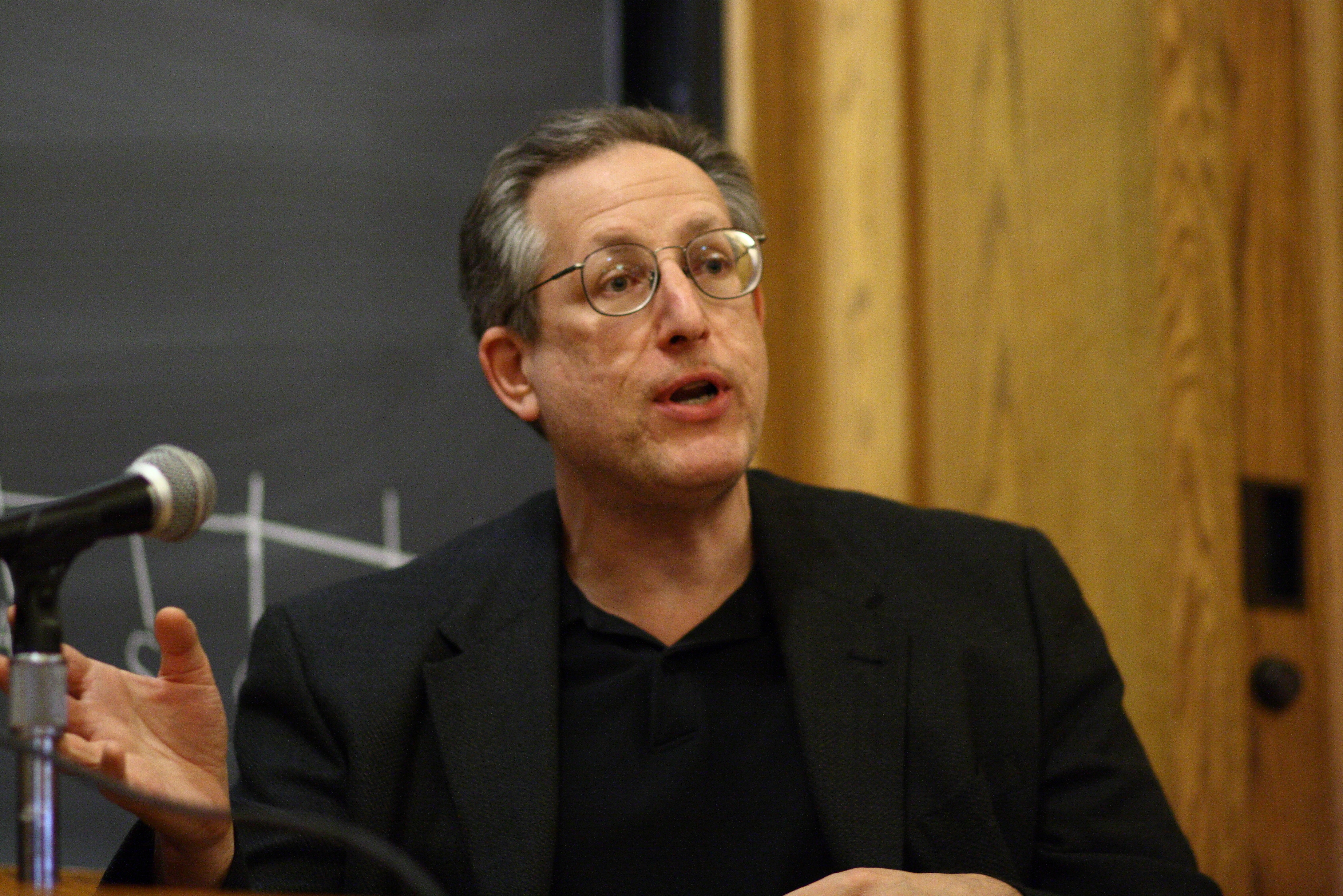 Jack Balkin at the Writers on Writing about Technology roundtable at Yale University marking the publication of The Best Technology Writing 2009 (Yale University Press)